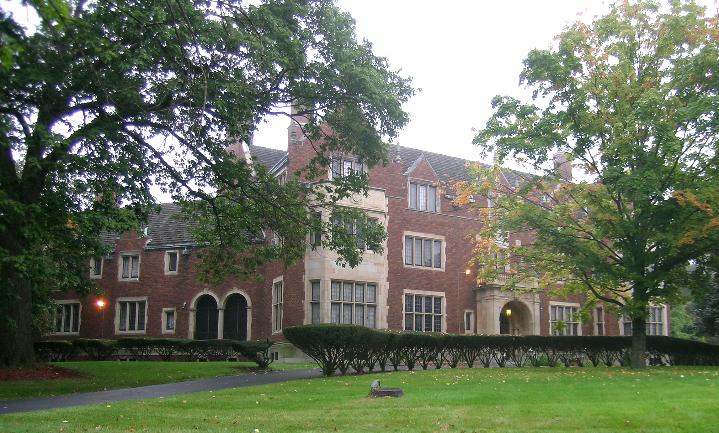 Bishop Gallagher House in Palmer Woods — Detroit, Michigan. The 40,000-square-foot (3,700 m2) Tudor Revival style residence is the largest within the city of Detroit. A Historic district contributing property to the Palmer Woods Historic District, and on the National Register of Historic Places.